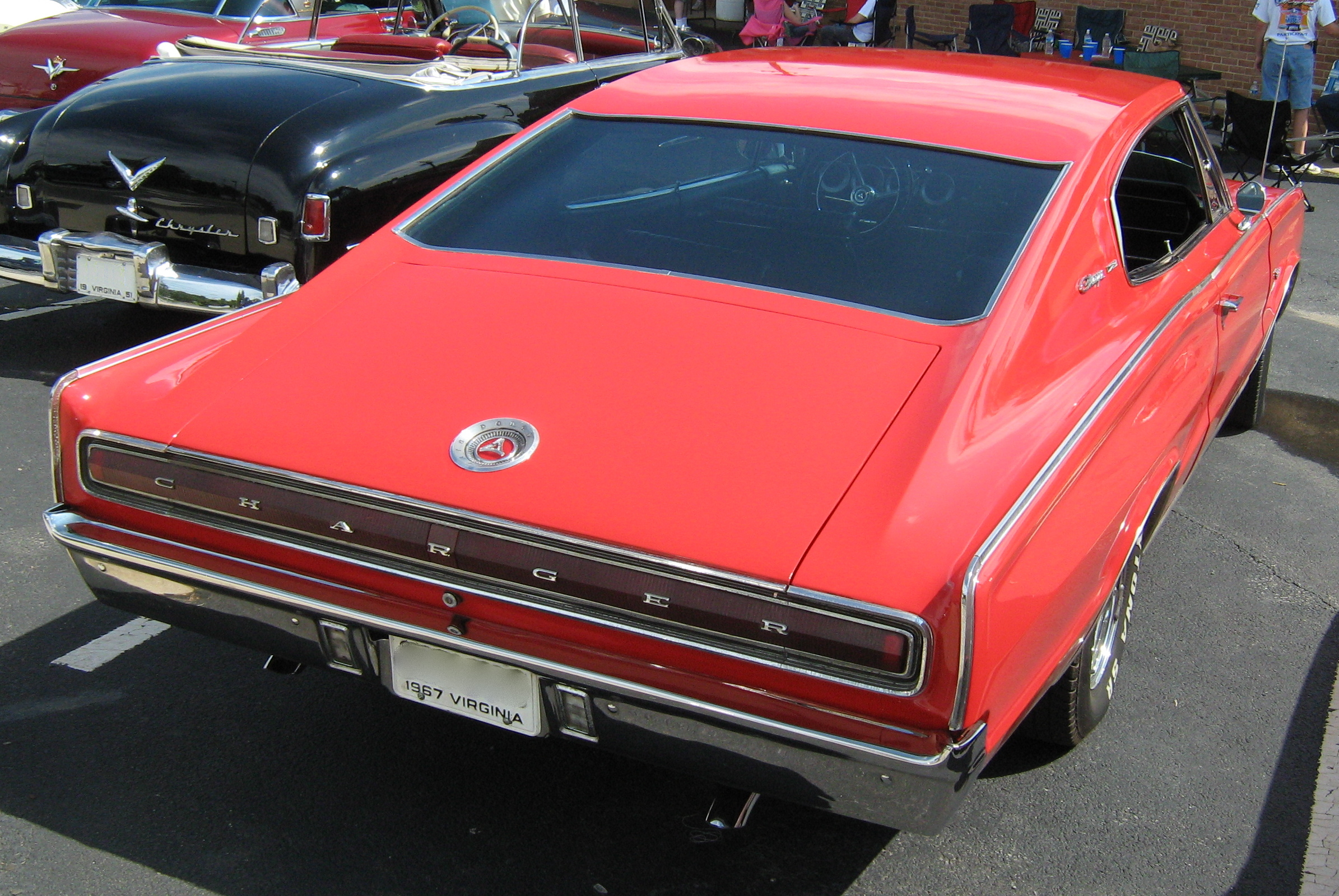 1967 Dodge Charger fastback, 2-door (pillarless) hardtop.